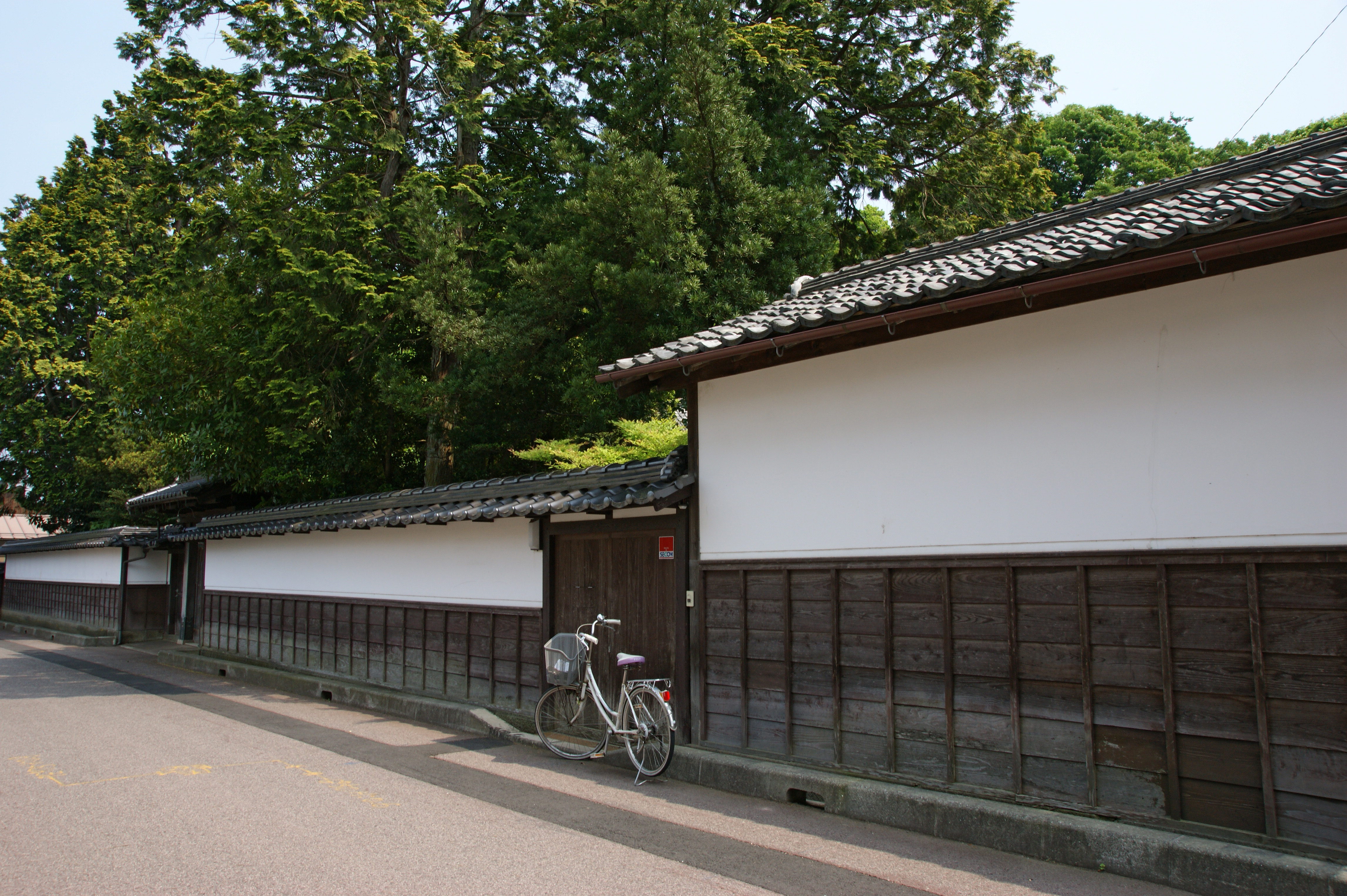 Kyogoku Residence in Toyooka, Hyogo prefecture, Japan